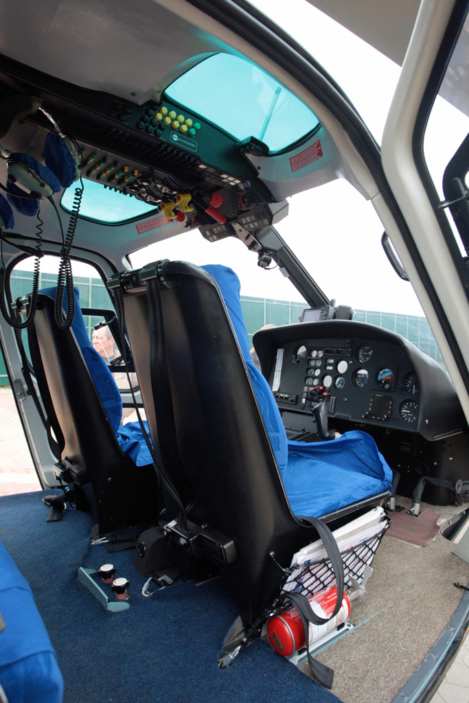 “Heliexpress cab”. Five-seat two-engine AS355N Eurocopter of the Ecureuil family on the Crocus Expo helicopter deck. This joint Heliexpress cab project is the responsibility of three companies: Russian Helicopter Systems, UTair aviation company and Eurocopter's subsidiary Eurocopter Vostok.